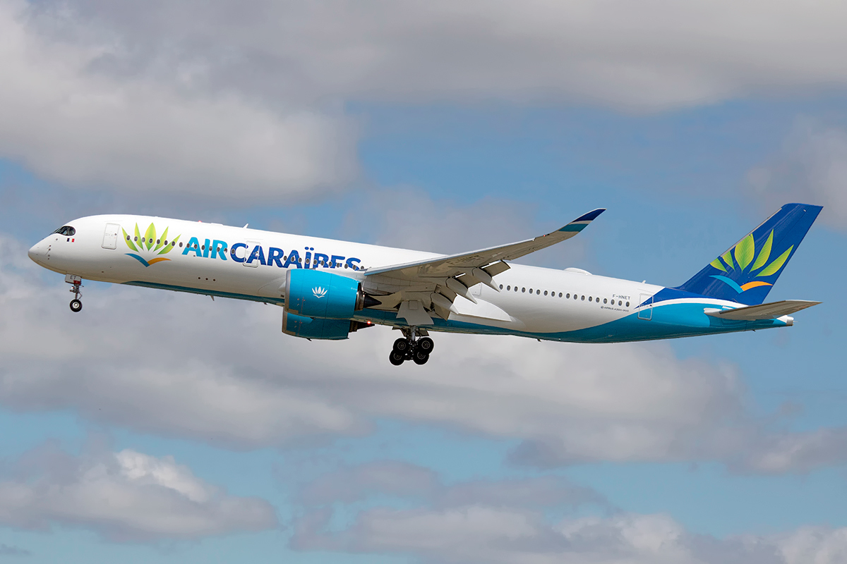 Air Caraïbes Atlantique Airbus A350-941 at Paris Roissy - Charles de Gaulle - LFPG France